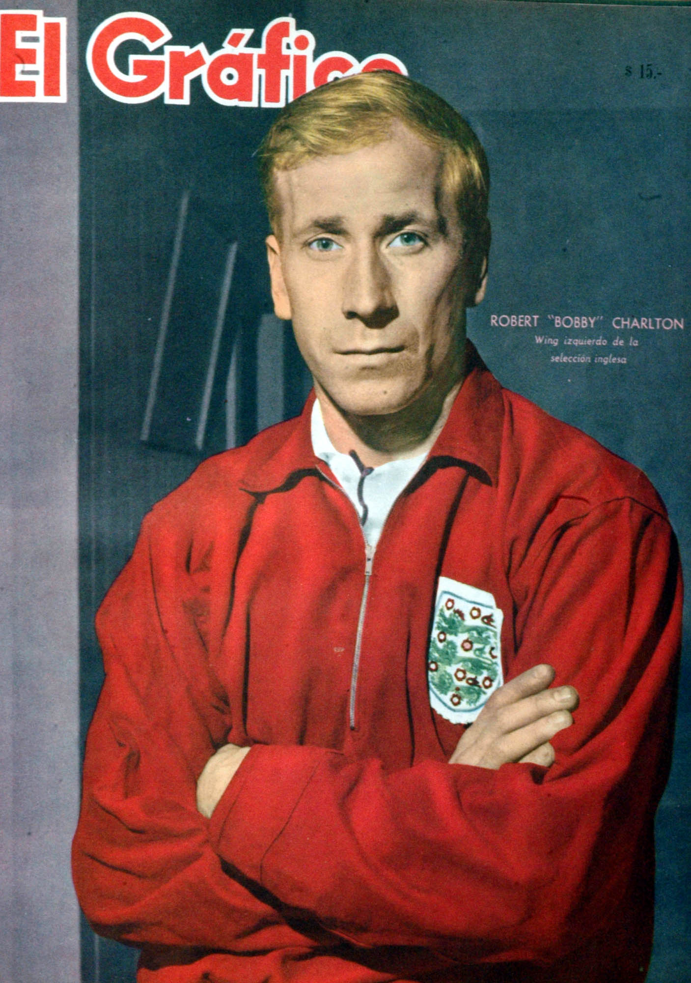 English football player Bobby Charlton.